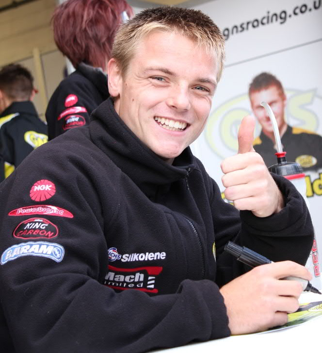 Sam Lowes (no further detail at source)